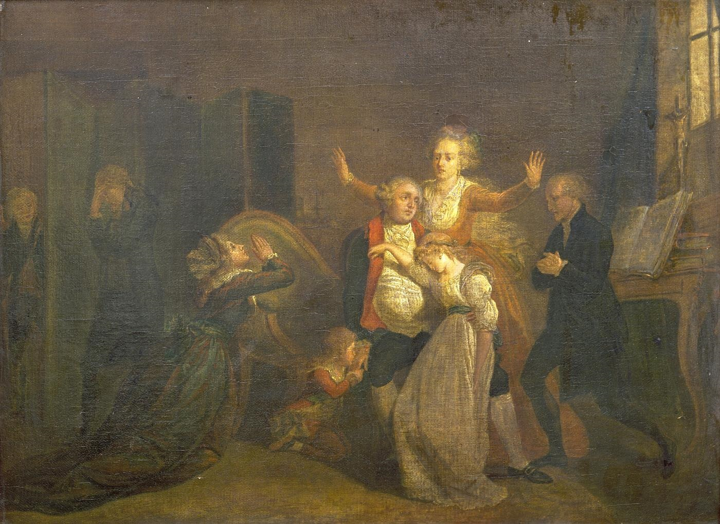 Der König verabschiedet sich von seiner Familie